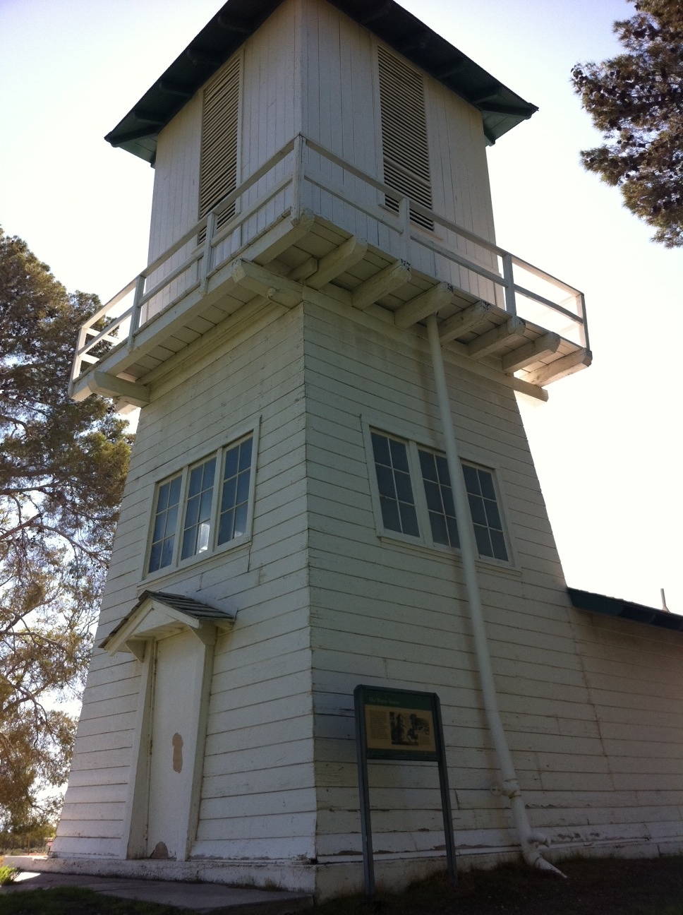 Water tower at Tule Springs Ranch — in Floyd Lamb State Park, Las Vegas, Nevada.